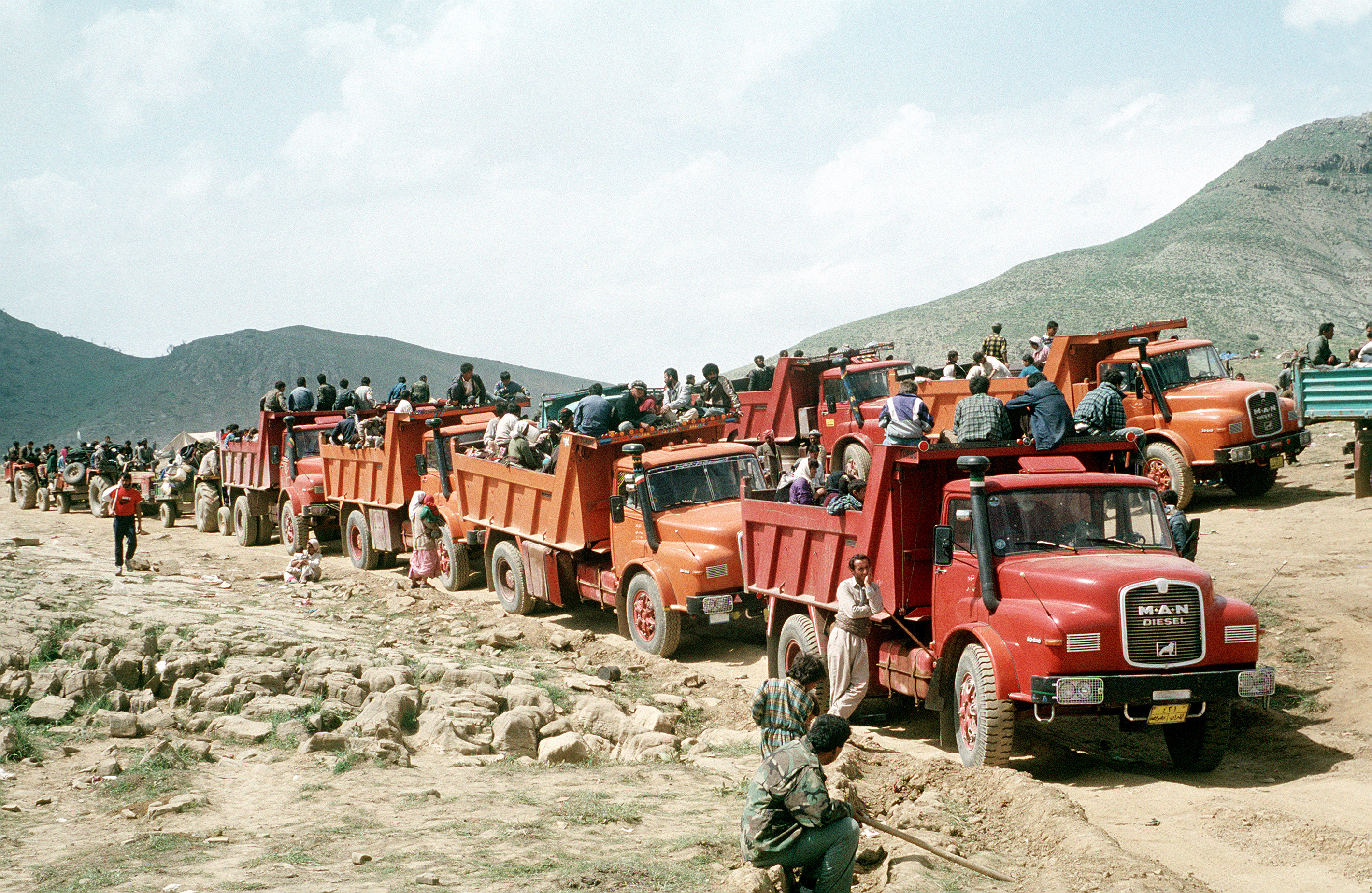 Kurdish refugees travel by truck between their mountain campsites and tent cities established by U.S. military personnel. Such facilities are being established as part of Operation Provide Comfort, an Allied effort to aid the refugees who fled the forces of Saddam Hussein in northern Iraq.